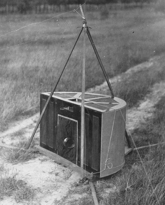 In 1906 George. R. Lawrence (1869-1938) showed the world the compelling beauty of the aerial view. Lawrence used a train of nine large kites to lift a moving slit panoramic camera that weighed 49 pounds and rose to a height of 2000 feet.